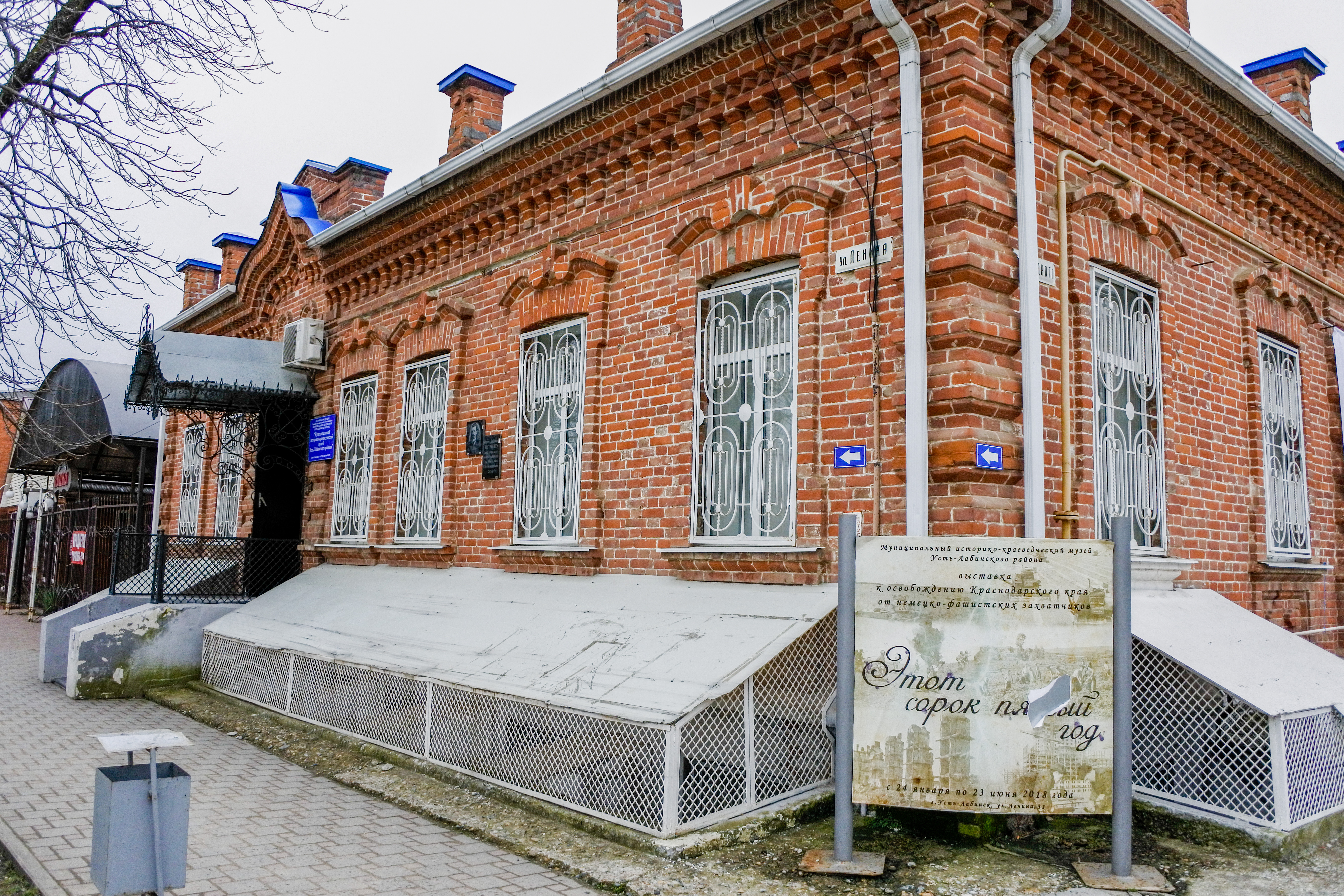 Bulit at the end of 19th century